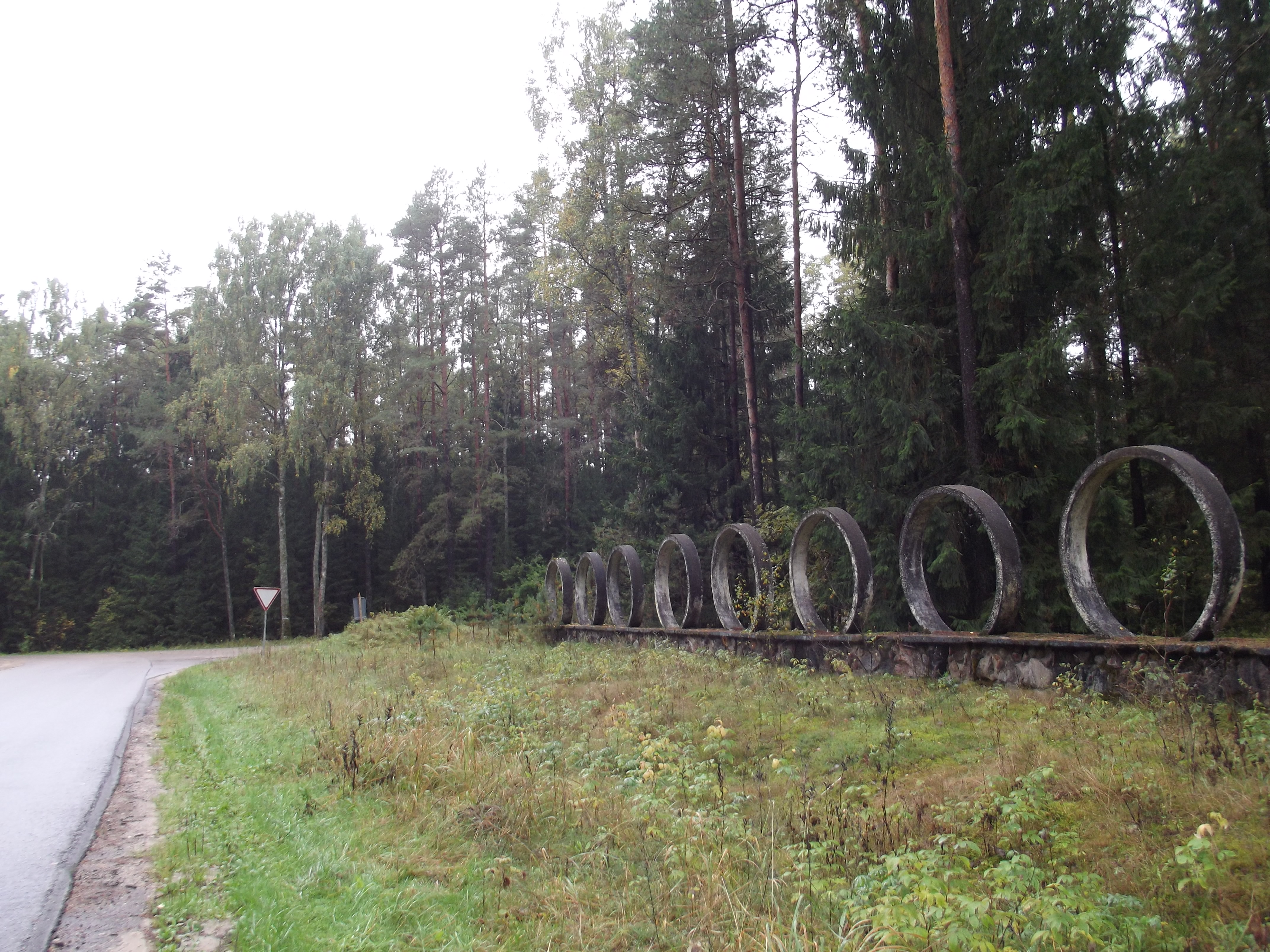 Military proving ground in Kazlų Rūda, Lithuania